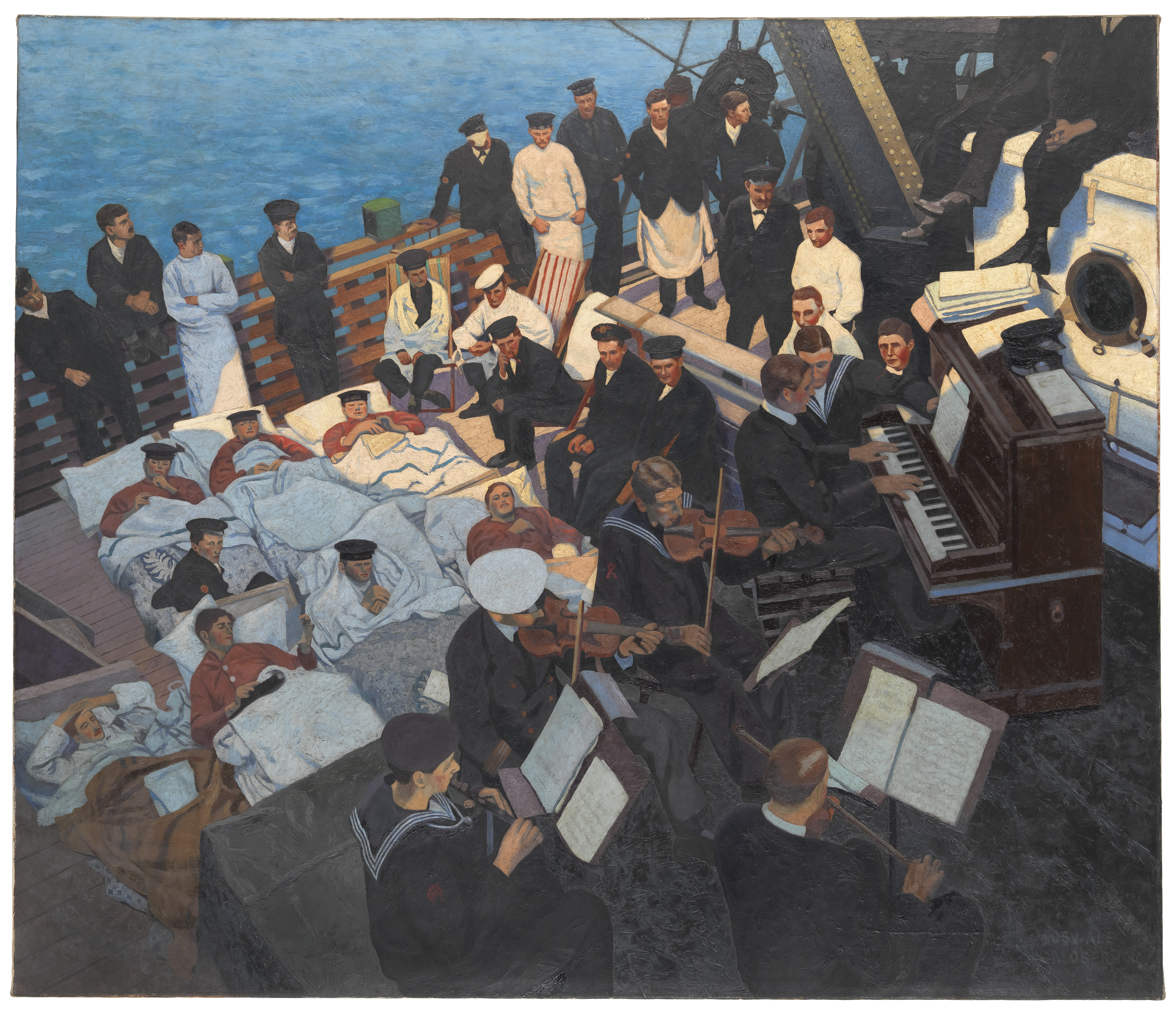 World War I: wounded sailors listening to musicians playing on board ship. Oil painting by Oswald Moser, ca. 1918. After cleaning - painting without frame. Iconographic Collections Keywords: Oswald Moser